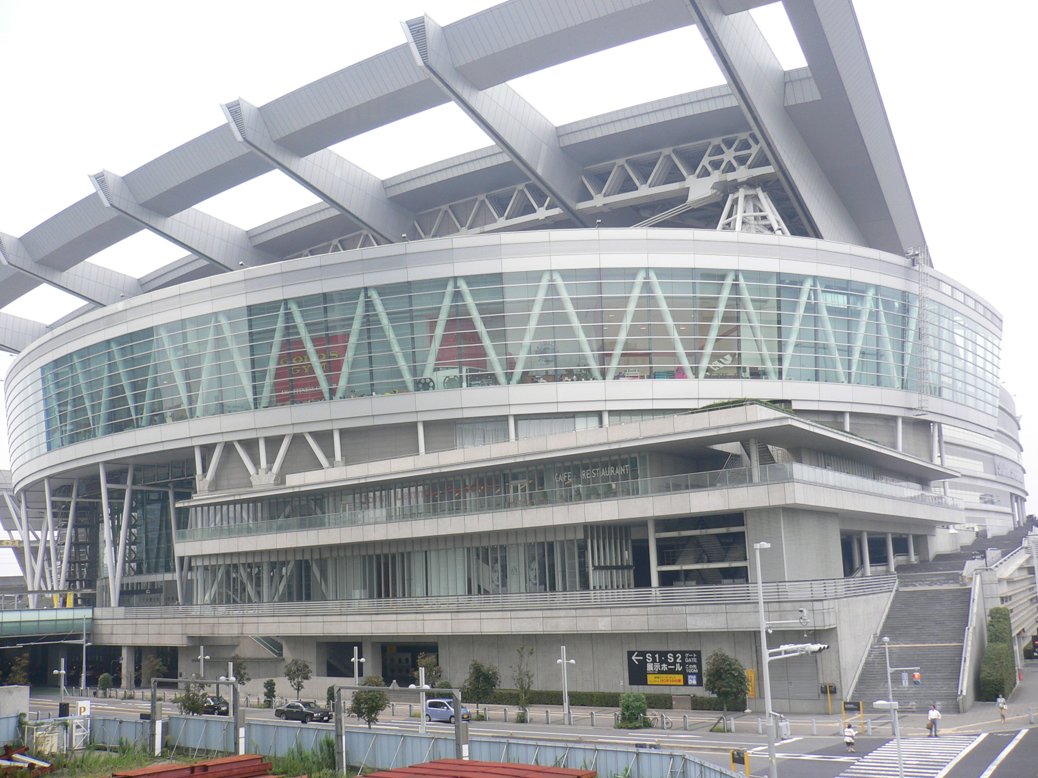 Saitama Super Arena (さいたまスーパーアリーナ), Saitama C, Saitama P.